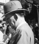 Camilo Da Passano- actor